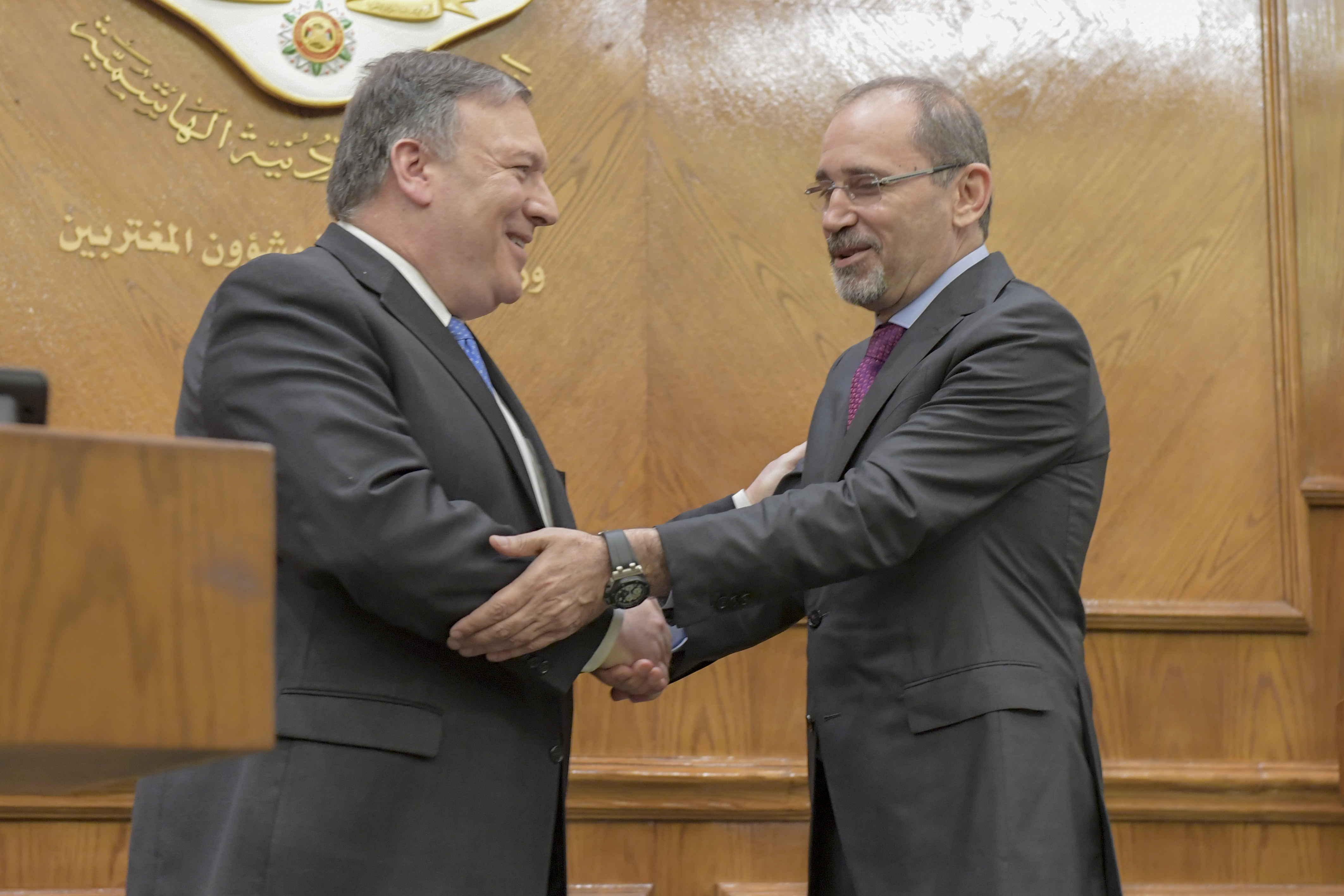 U.S. Secretary of State Mike Pompeo holds a joint press availability with Jordanian Foreign Minister Ayman Safadi, in Amman, Jordan, on April 30, 2018. (State Department photo/ Public Domain)